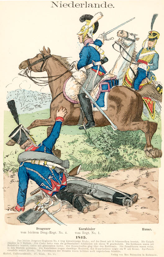 Niederlande. Dragoner. Karabinier. Husar. 1815